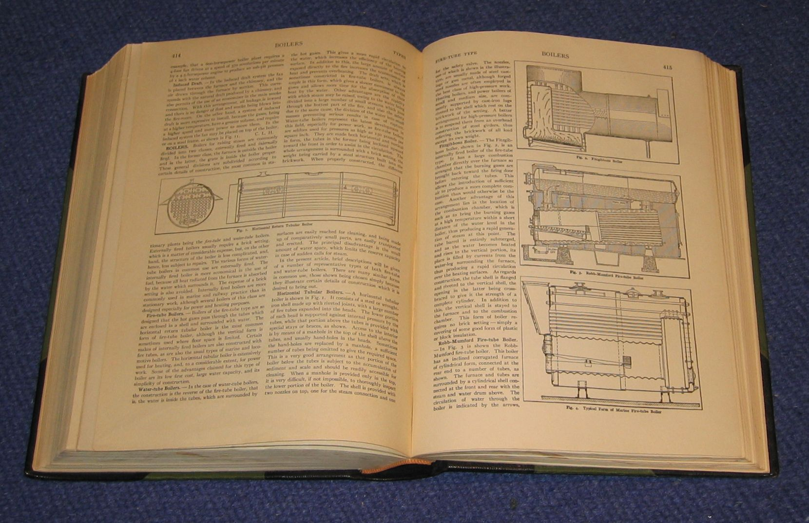 Sample book pages. "Machinery's Encyclopedia", 7 volumes, 1917 (public domain).